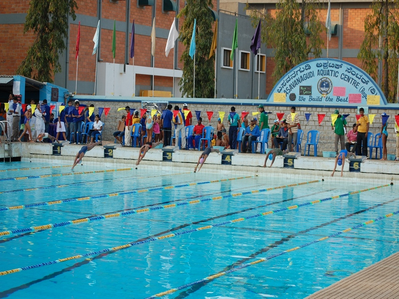 Start of an event at Basavanagudi Aquatic center with swimmers diving